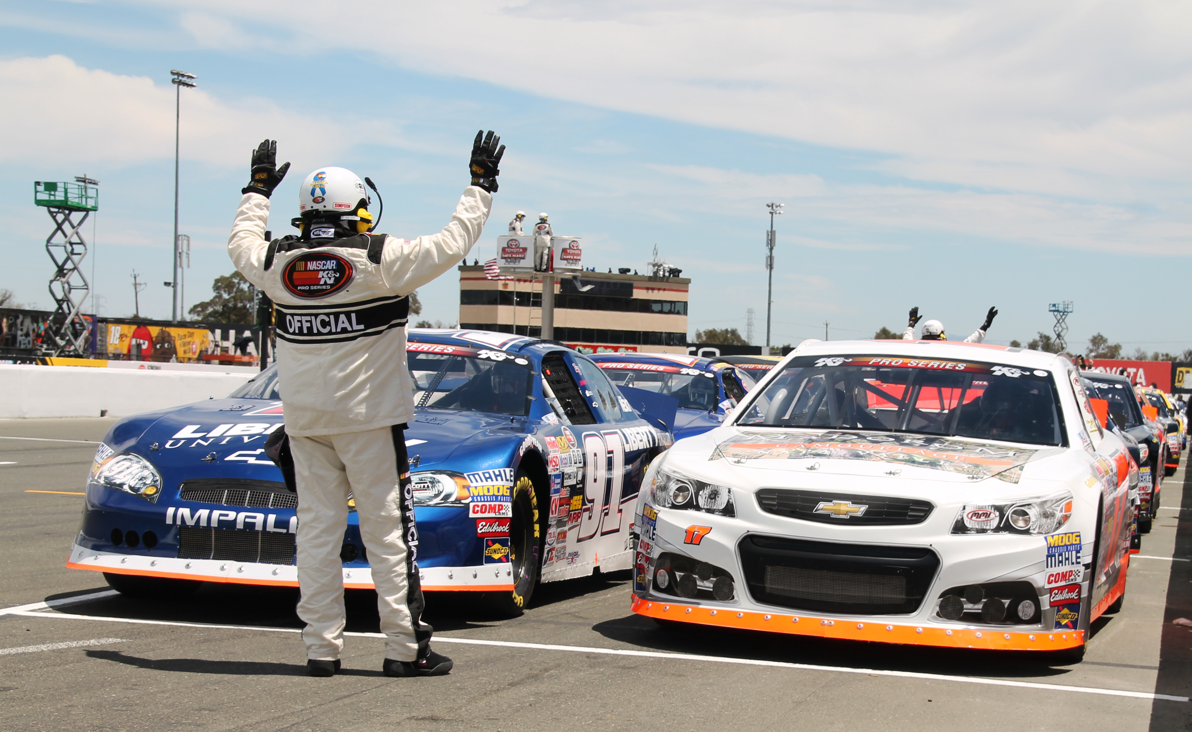 William Byron (left) and David Mayhew's cars prior to the start of the 2015 Carneros 200, Sonoma, California